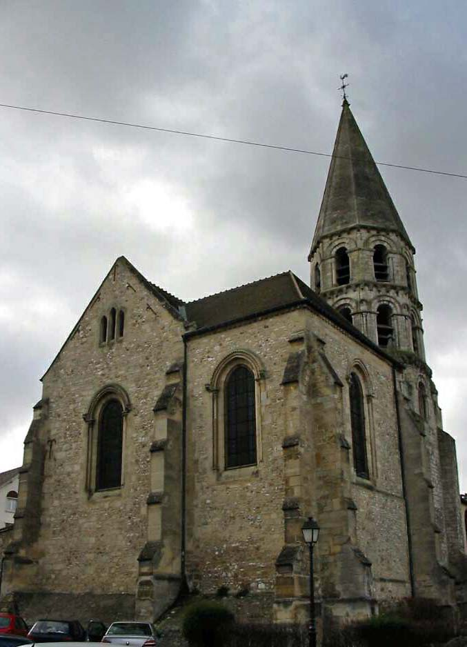 Church Saint-Béat of Épône.